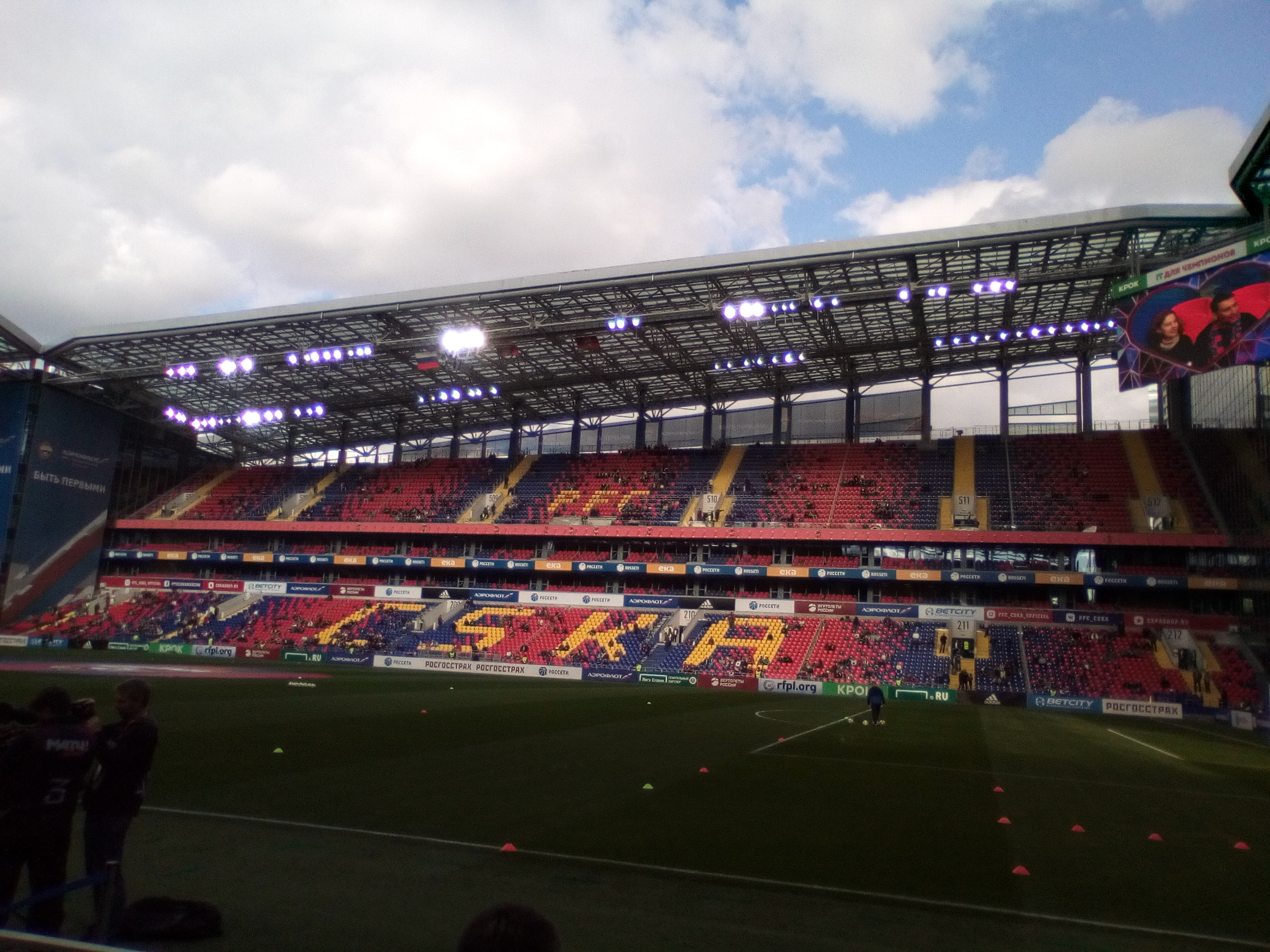 The mian stand of VEB Arena